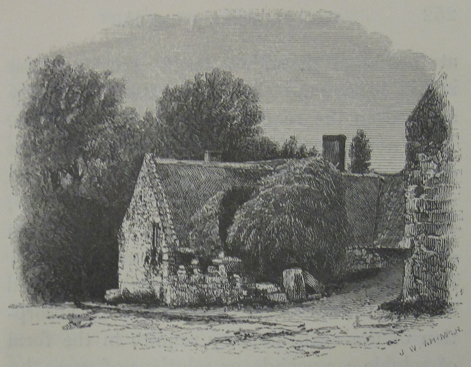 Rambles Among the Channel Islands, by a Naturalist, c.1860, Jean Louis Armand de Quatrefages de Bréau - "Stacks of sea-weed, Alexander's Hotel, Guernsey"